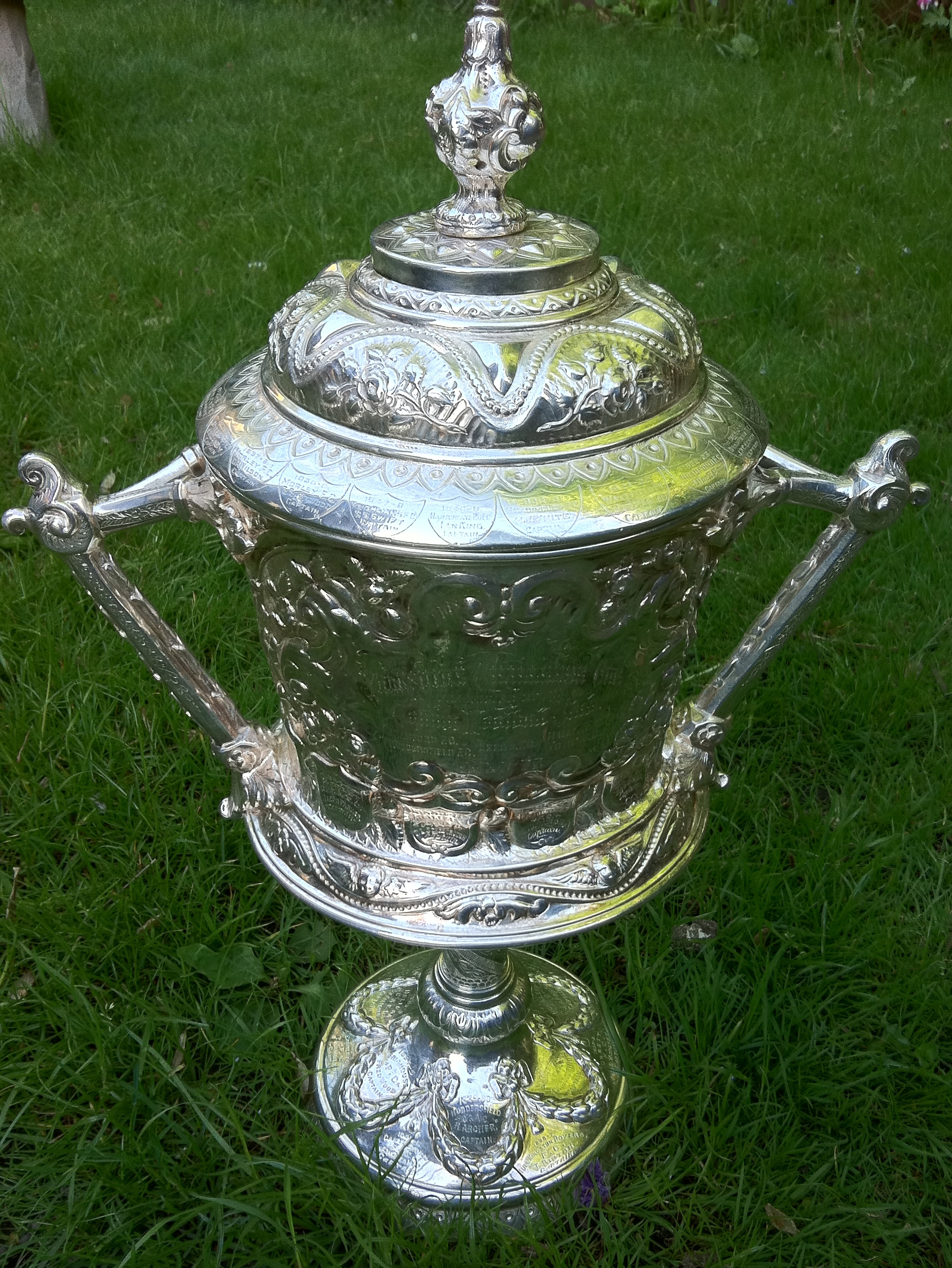 Yorkshire Cup (Rugby Union) also known as T'owd tin pot